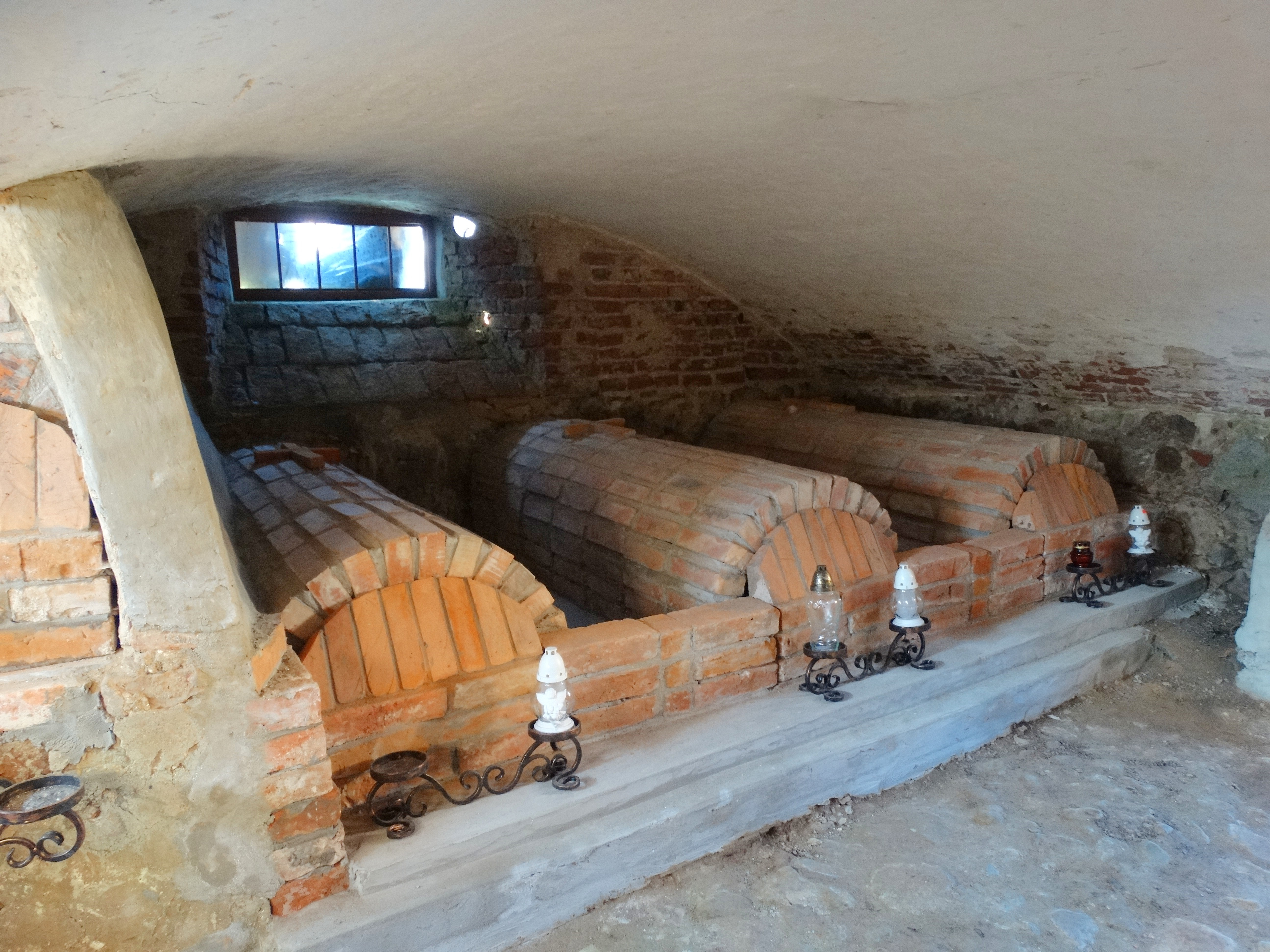 Chapel of the Holy Cross, vault, Tūbinės, Šilalė district, Lithuania